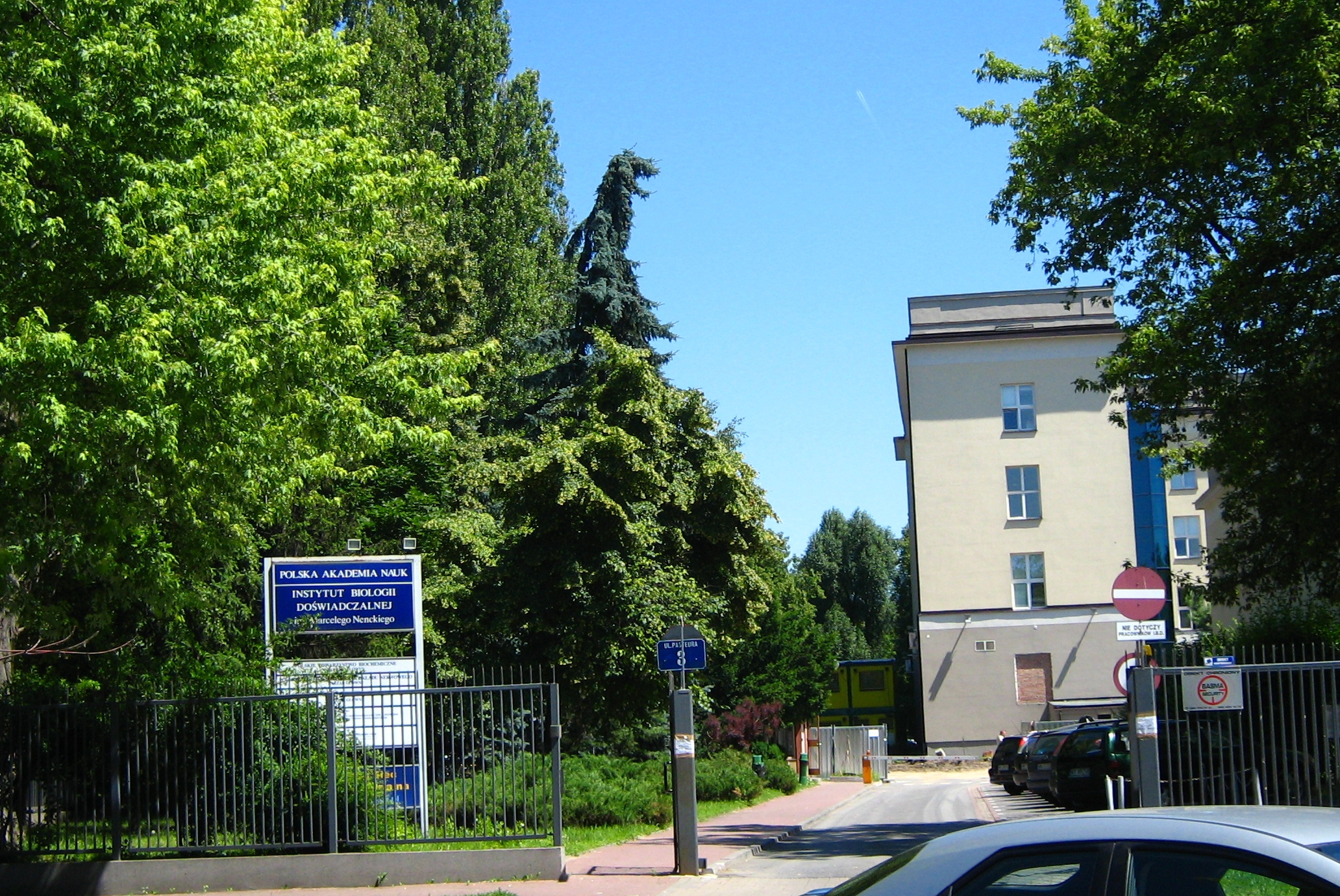 Nencki Institute of Experimental Biology, Warsaw.